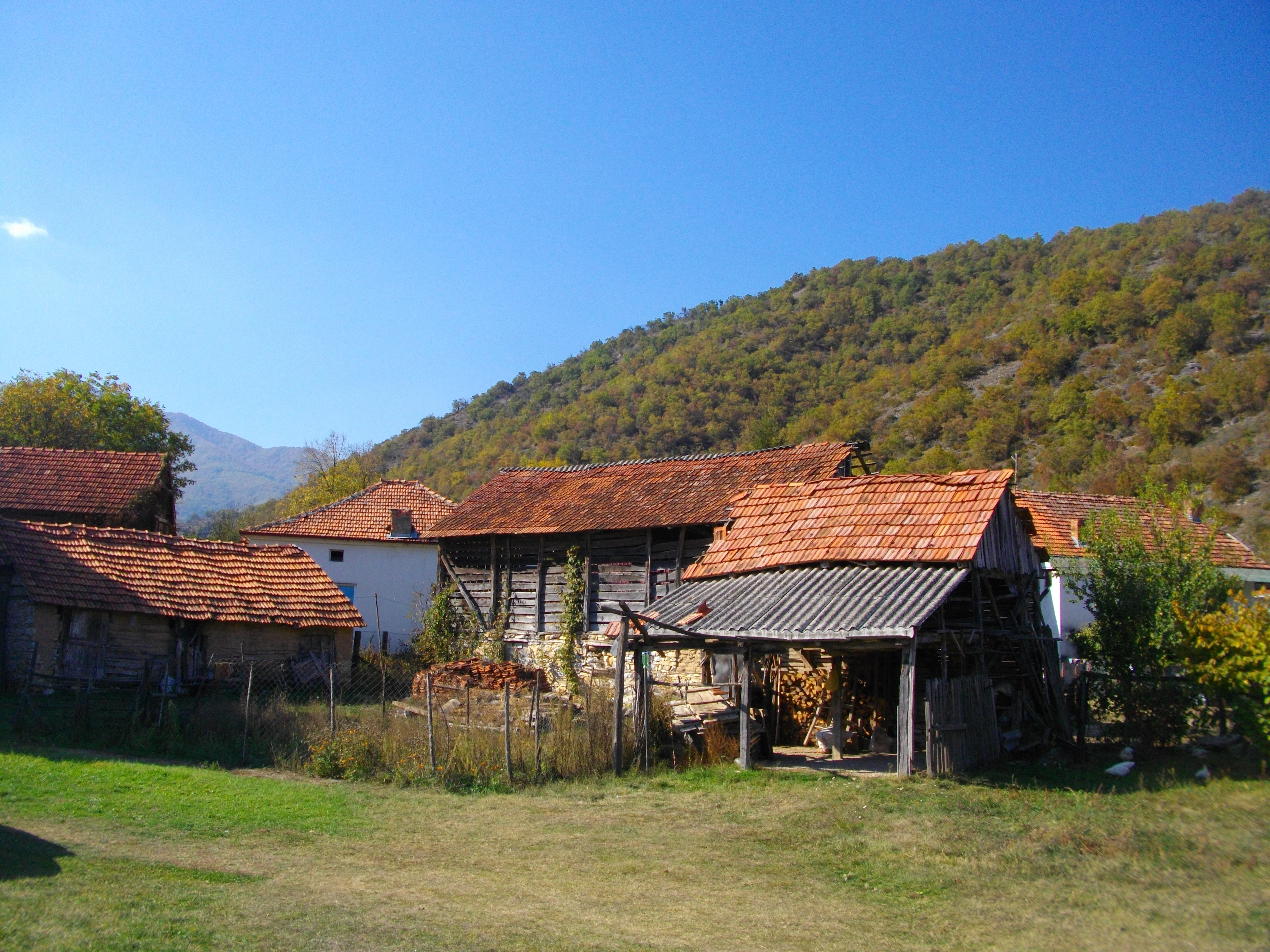 Devič